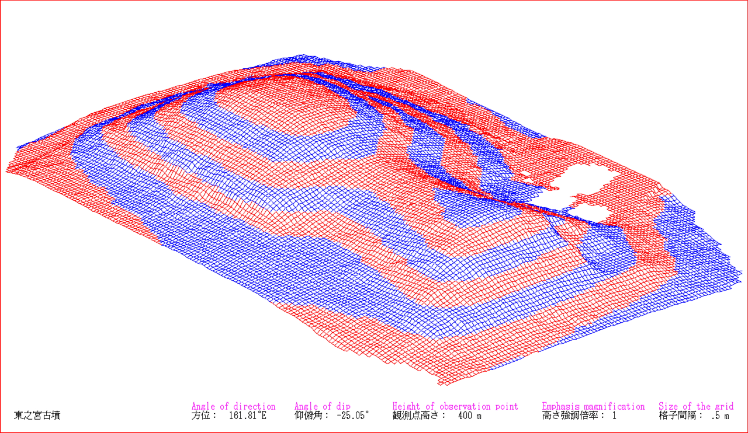 I who am a contributor drew the picture by a software which developed by myself. The survey map which I referred to depends on "『史跡東之宮古墳』犬山市教育委員会（2014年）". This is a drawing of present situation (not a drawing of a restored mound). The drawing depends on combination of wire frame and height eight phases classification. Perspective projection.